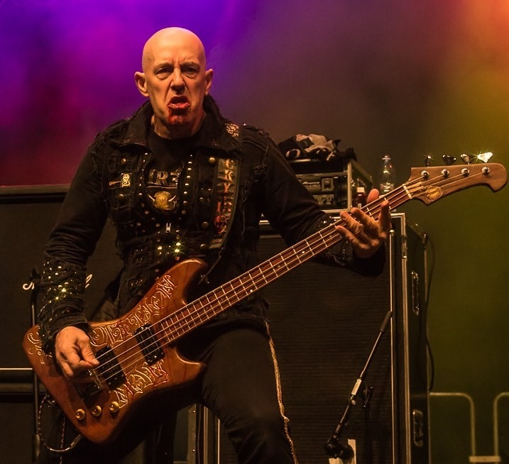 Tony "Demolition Man" Dolan, bassist and vocalist of Mpire of Evil, performing live in 2013.